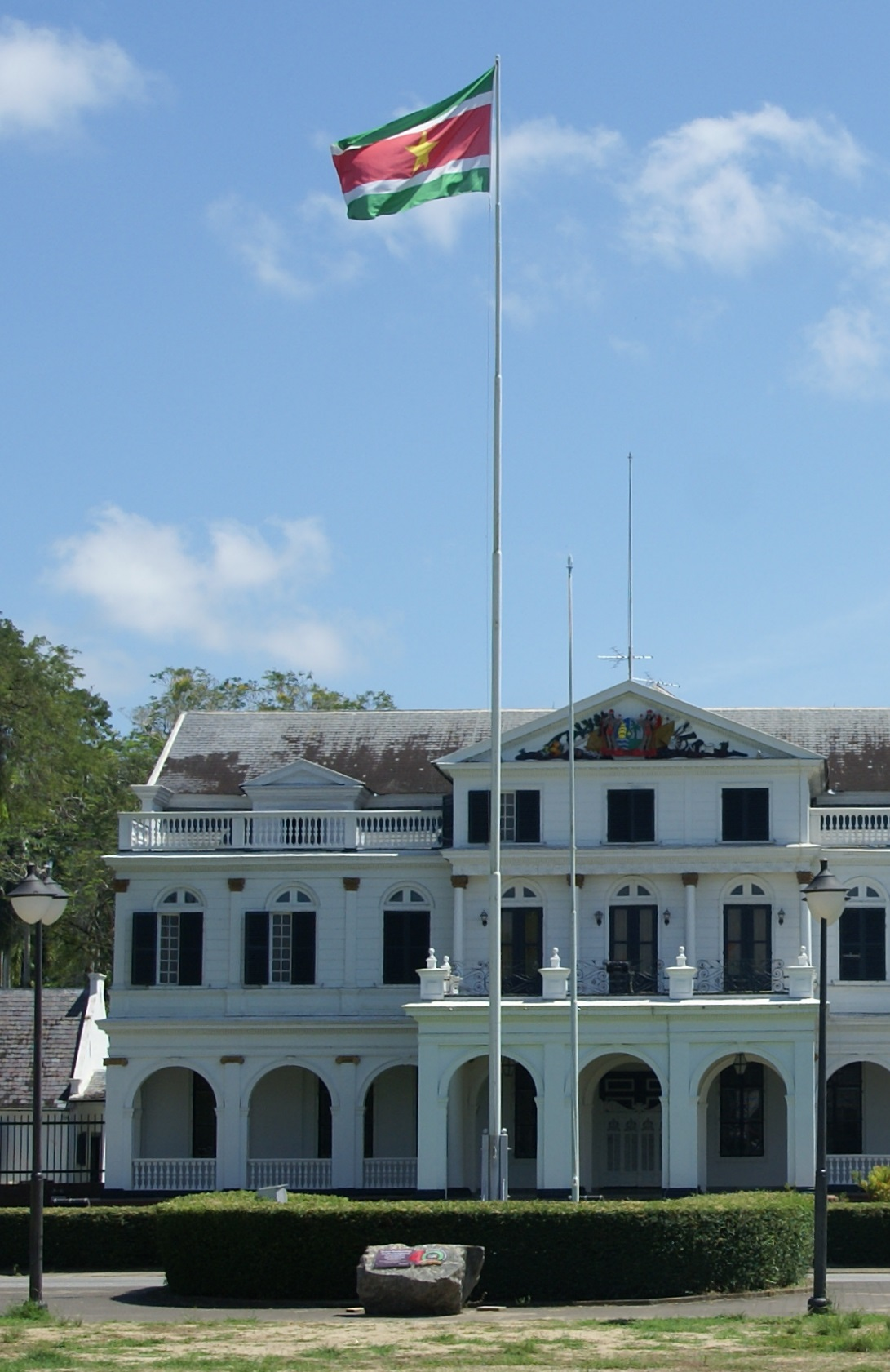 Monument 40 year independence, Onafhankelijkheidsplein, Paramaribo, Surinam. In the background the presidential palace and the flag of Surinam.